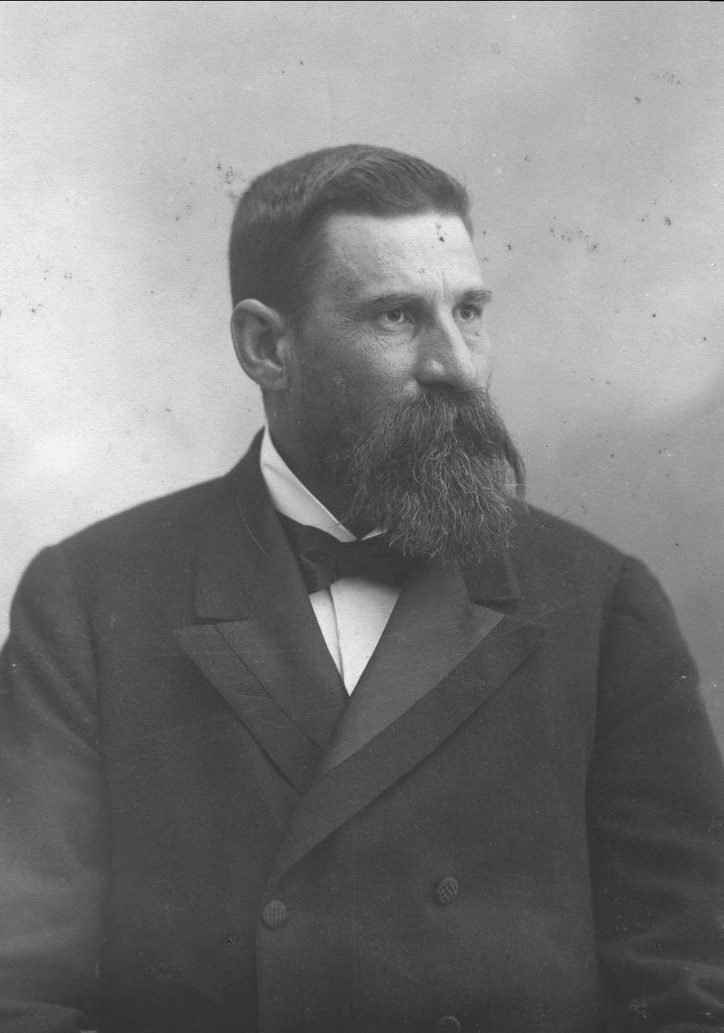 Portrait of Cornelius Hermanus Wessels (1851-1924), South African Boer politician and Afrikaner statesman, pictured as special envoy of the Orange Free State in Europe, 1900